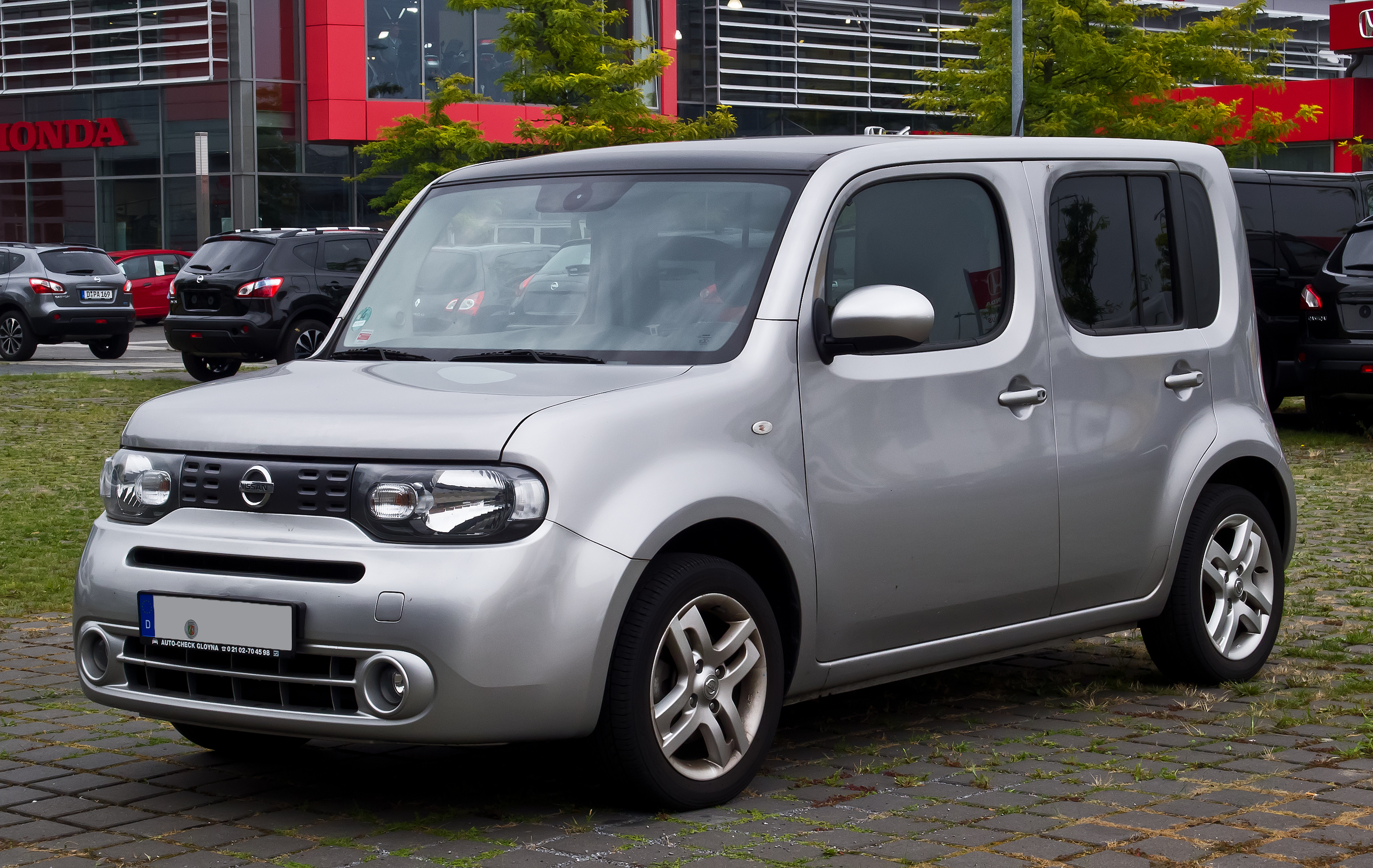 Nissan Cube (Z12)